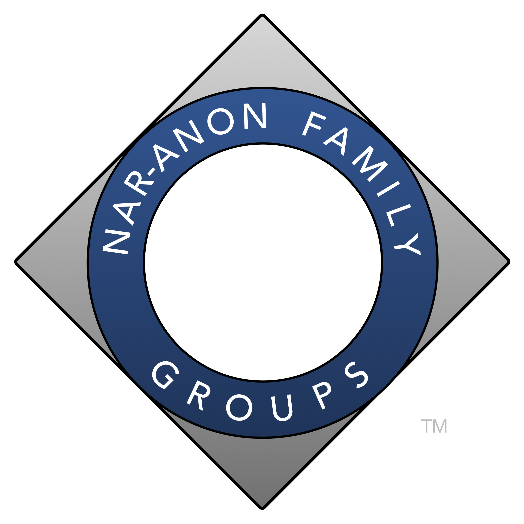 The conference approved full color logo of Nar-Anon Family Groups, Inc.